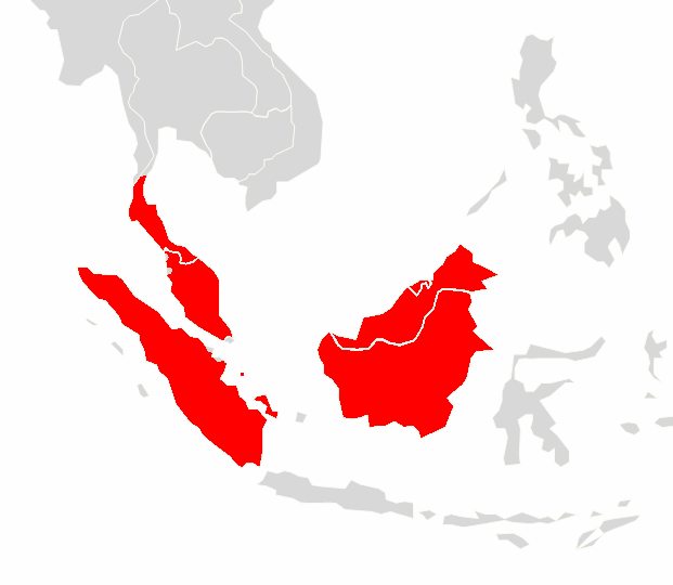 Southern Pig-tailed Macaque (Macaca nemestrina), range map, depending on the range map at IUCN red list